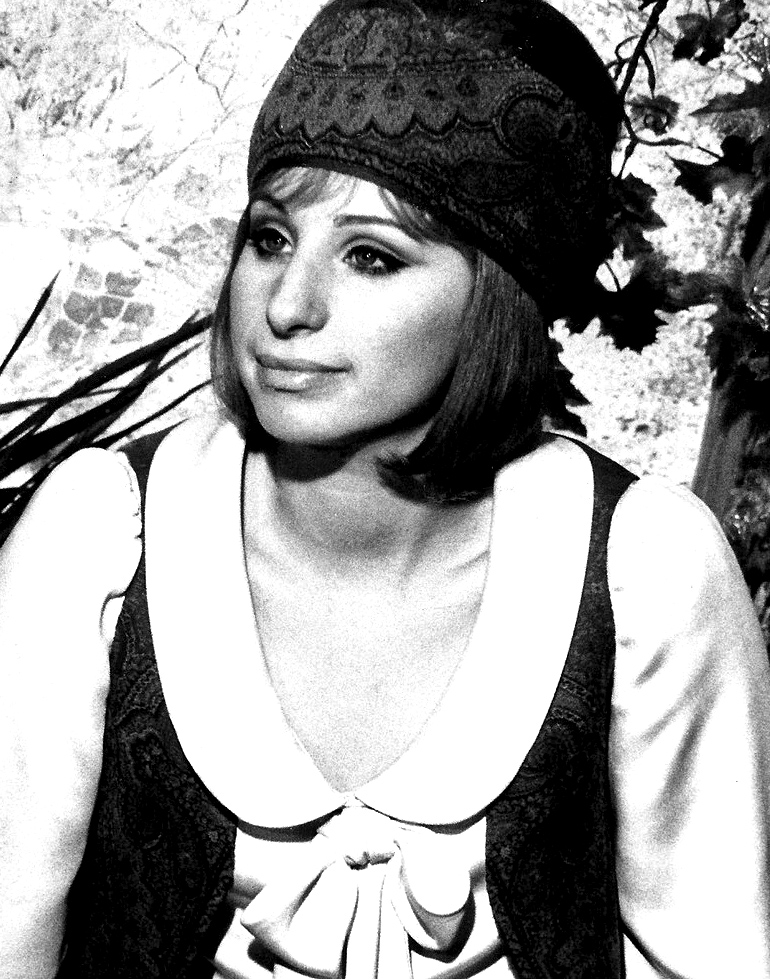 Publicity still of Barbra Streisand in On a Clear Day You Can See Forever.